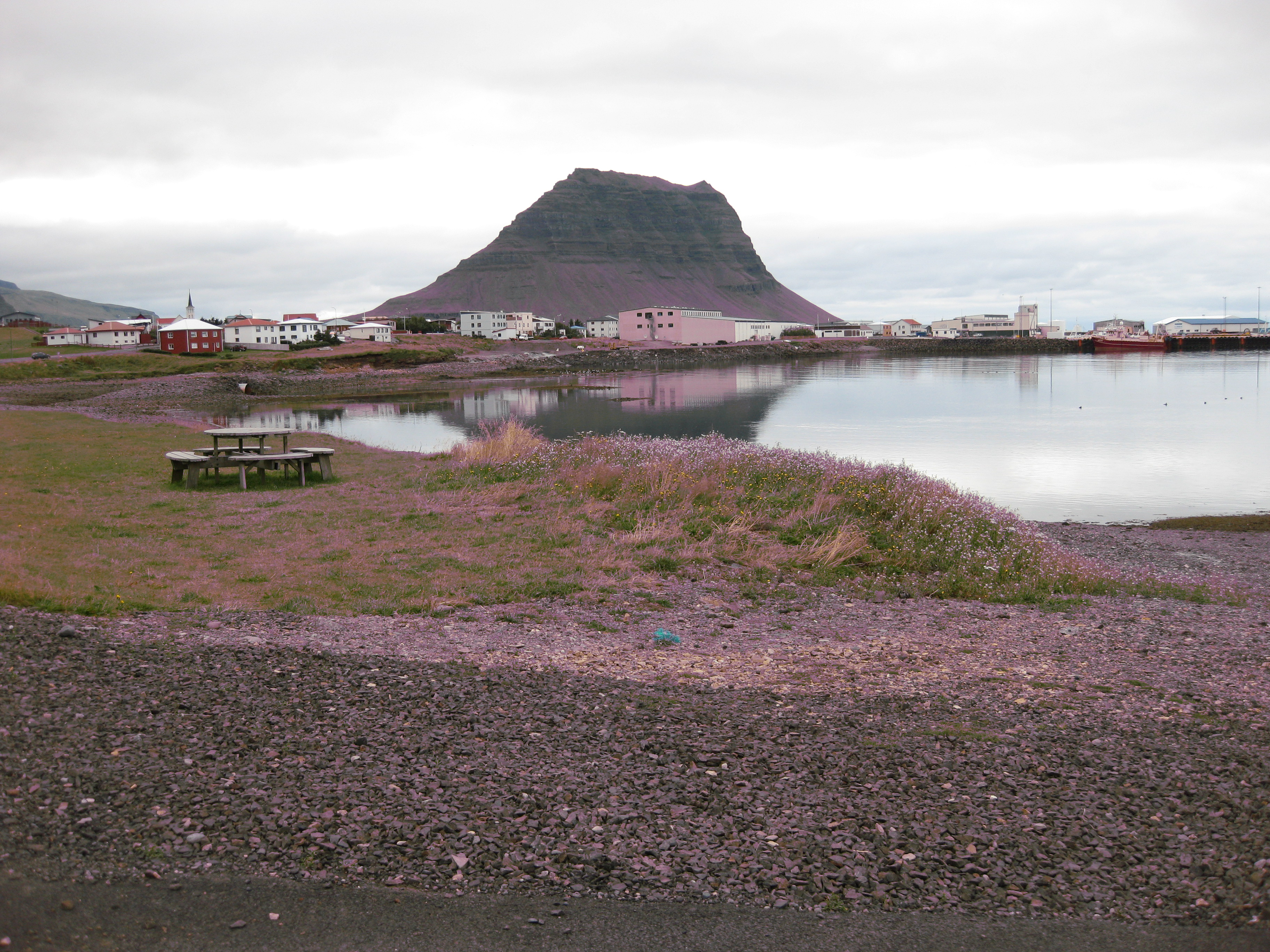 View of the town Grundarfjörður in the Snæfellsnes peninsula in west of Iceland. Mountain Kirkjufell in the background. Photo by Salvor Gissurardottir in August 2008